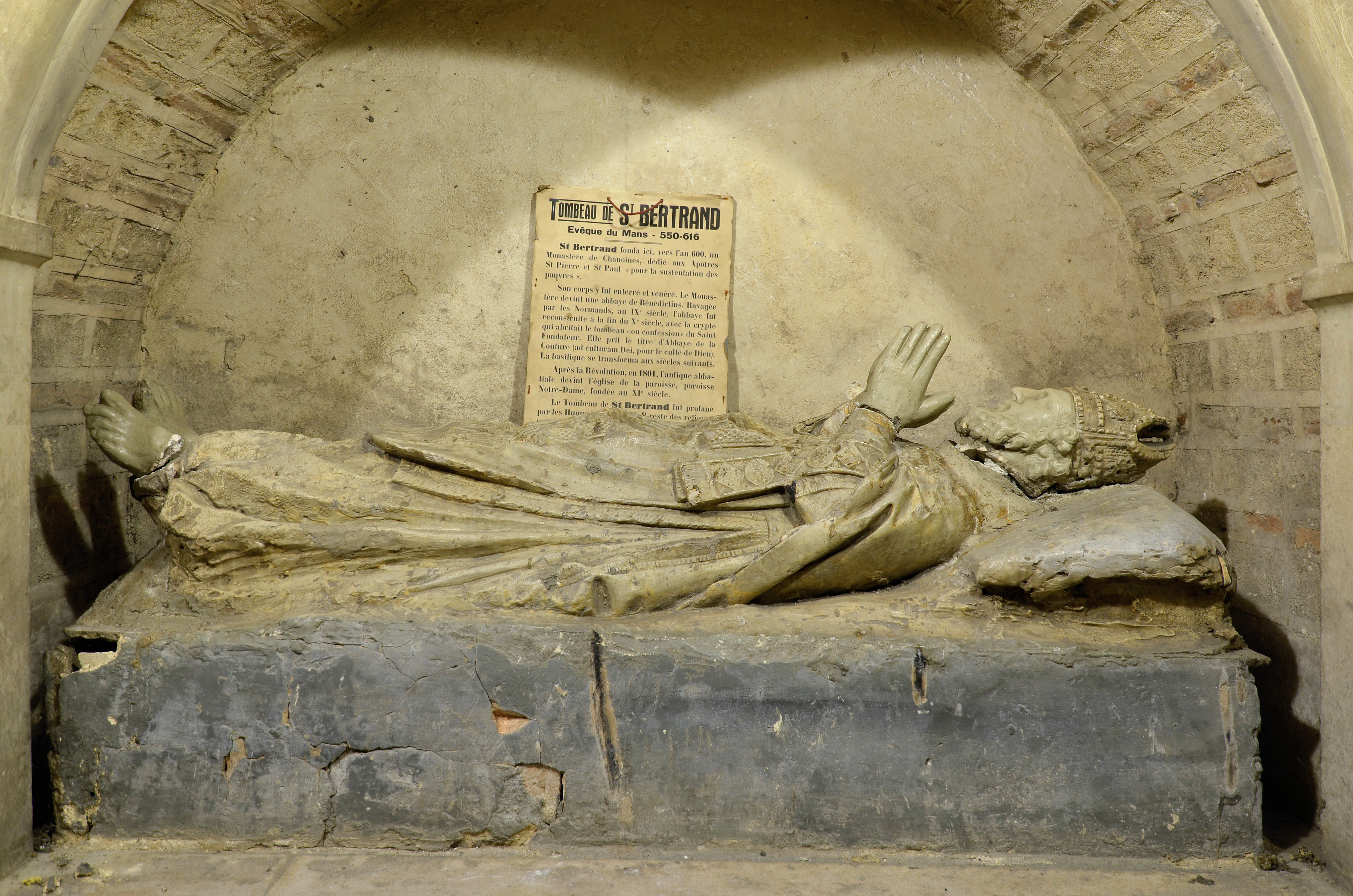 Grave of Saint Bertrand, bishop of Le Mans in the crypt of Notre-Dame de la Couture church - Couture Abbey - Le Mans, Sarthe, France .